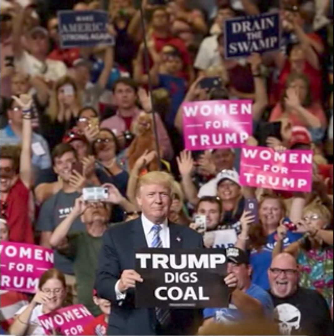 Donald Trump rally in Harrisburg